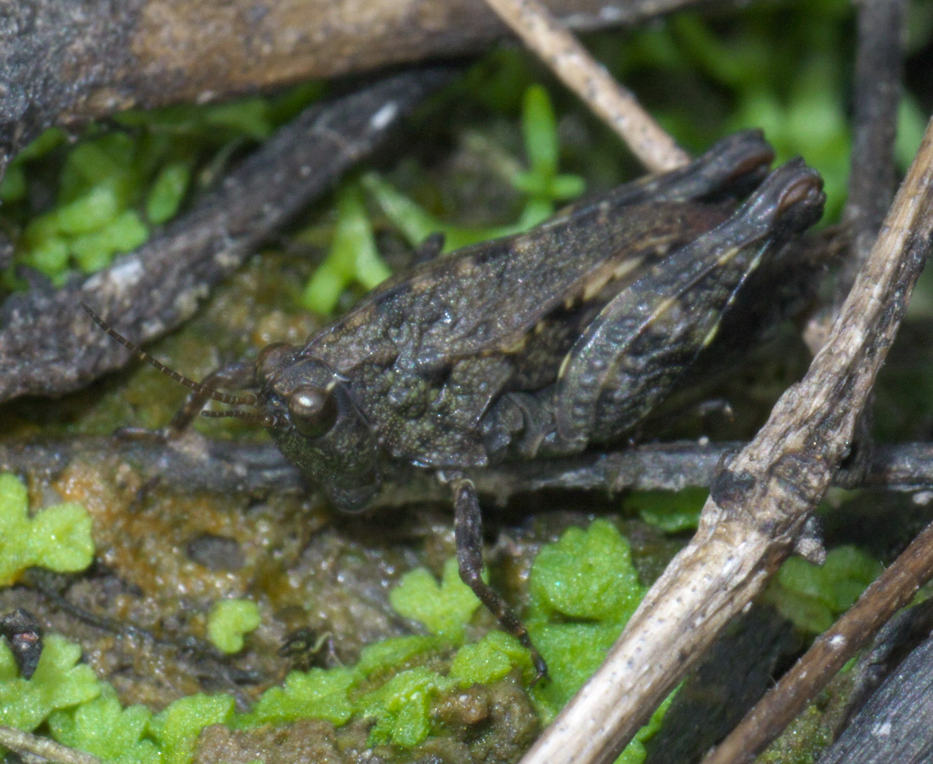 Tettigidea armata, Armored Pygmy Grasshopper, ID Confidence: 98